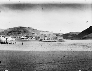 The Ottoman fort of a-Ukhaydir in modern-day Saudi Arabia and adjacent Bedouin encampments.